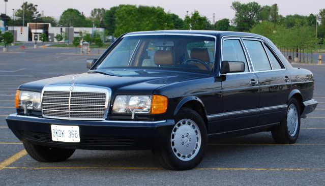 Mercedes benz W126